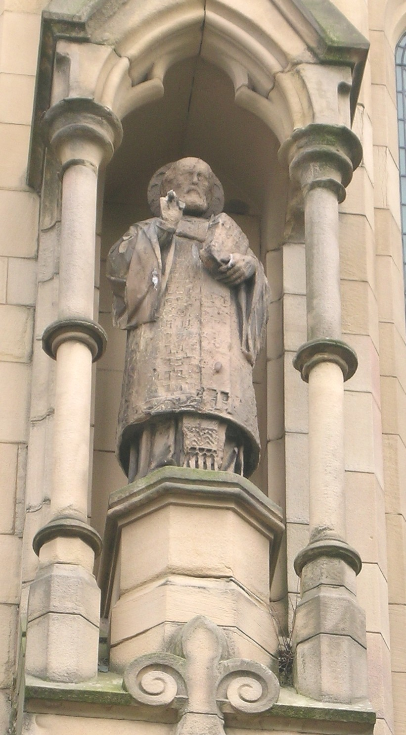 Statue of St John Chrysostom over the northwest door of St Chrysostom's parish church, Anson Road, Manchester